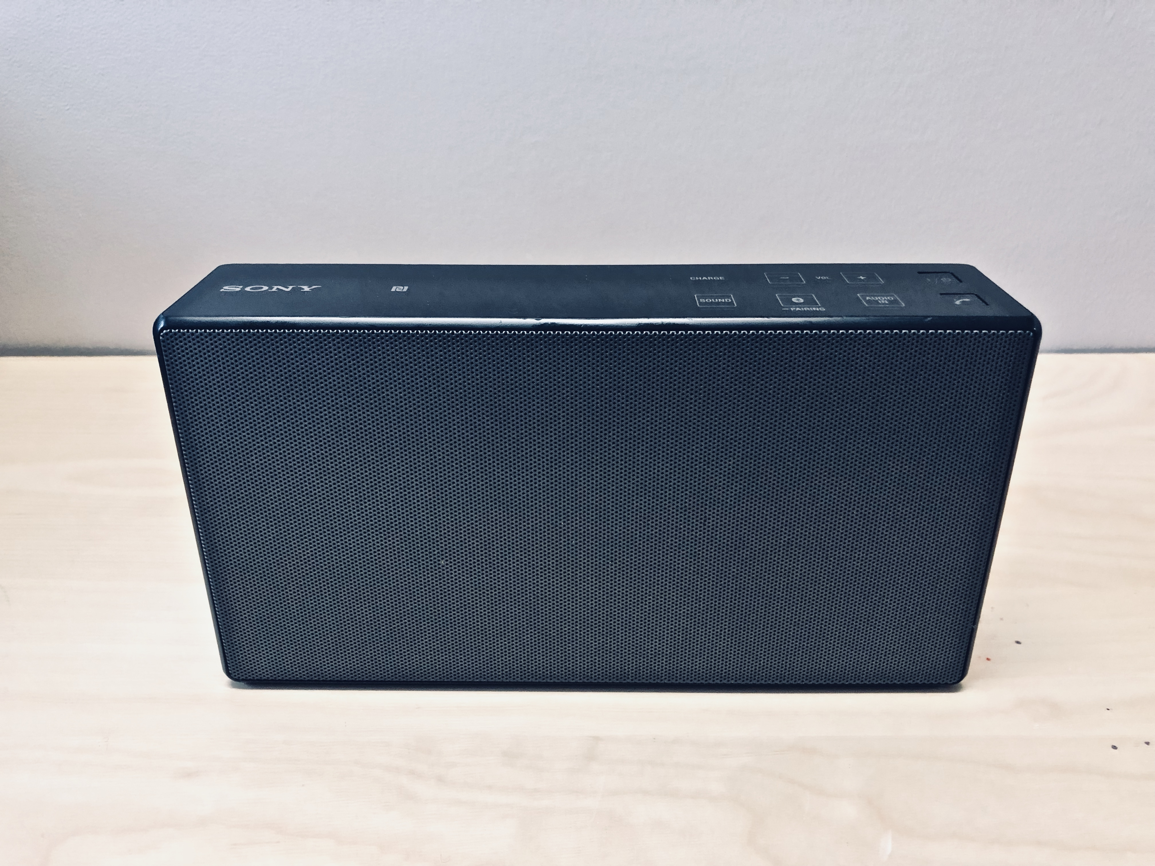 This is a Sony SRS X55 Personal Audio System, a Bluetooth enabled portable speaker or boom box, I took this photo with my iPhone X